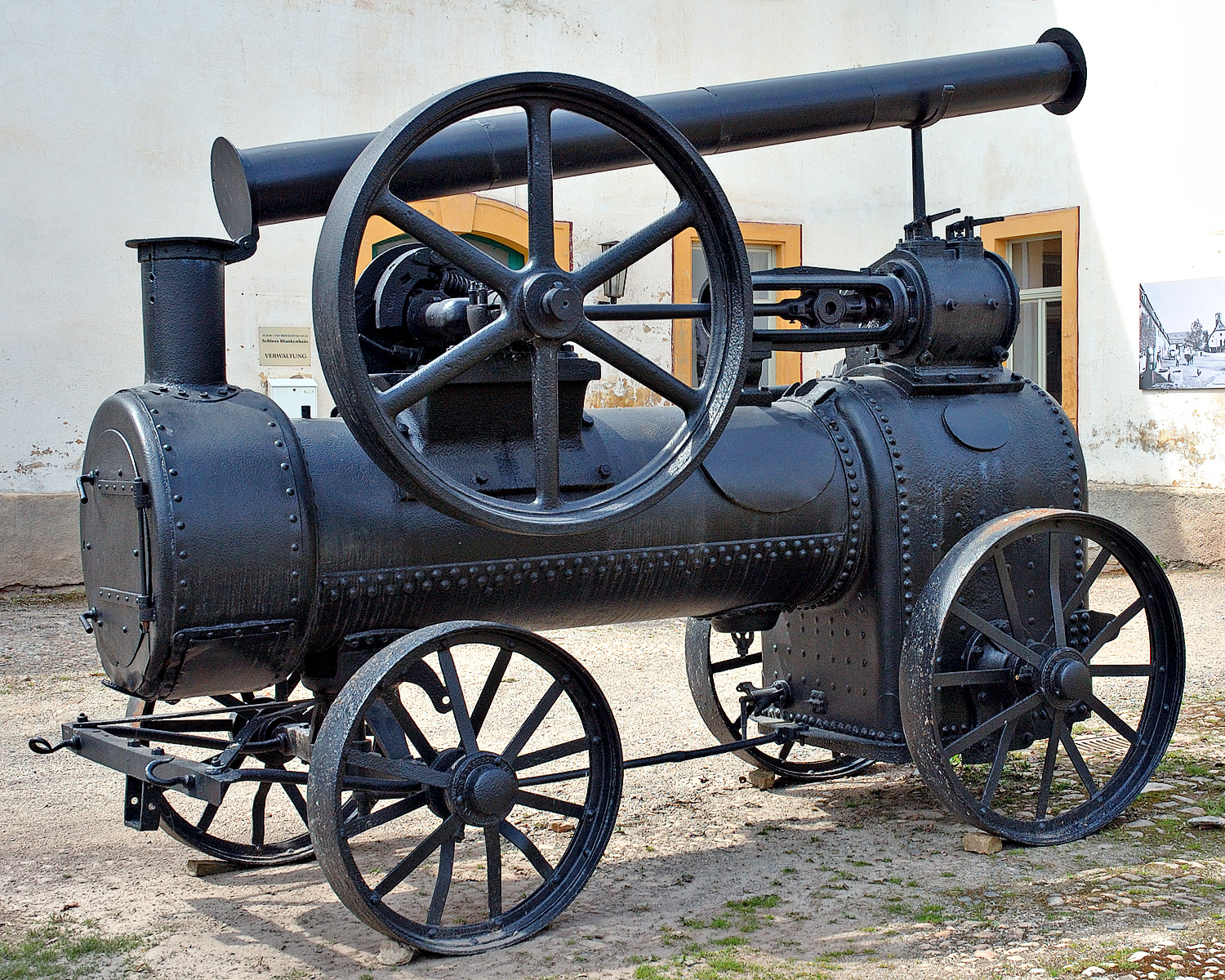 This image shows an old steam lokomobile. (specifically, a 'portable engine')